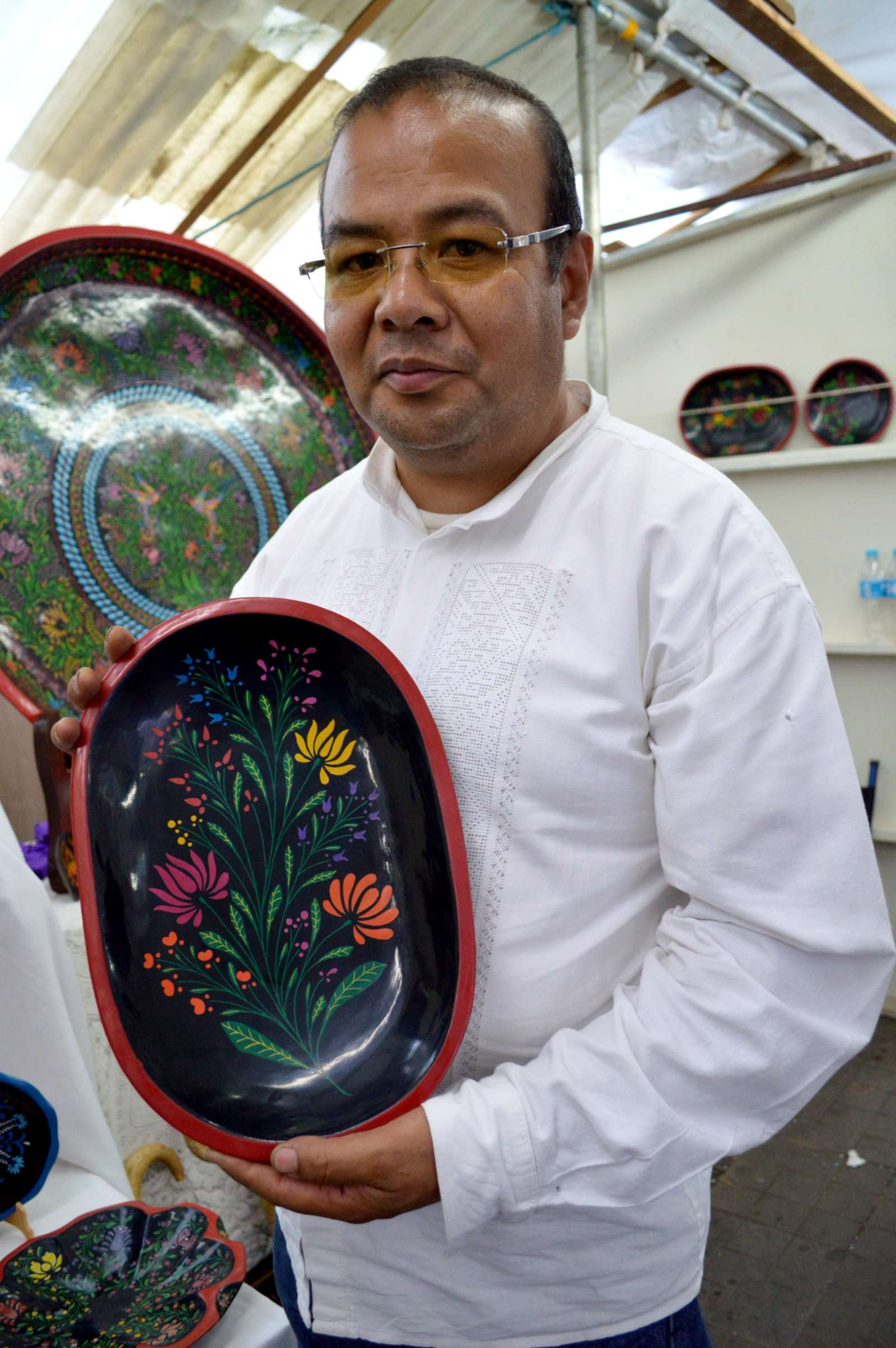 Artisan Juan Valencia Villalobos of Urupapan with maque piece at the Tianguis de Domingo de Ramos in Uruapan, Michoacan